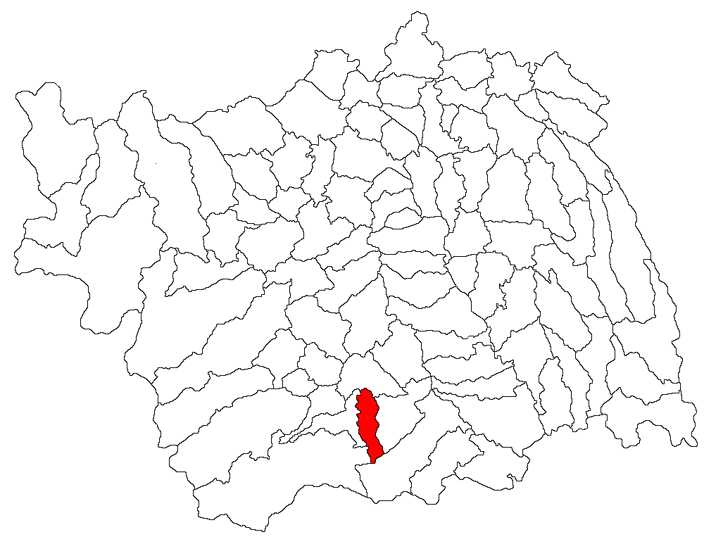 Locator map of the commune of Buciumi, Bacău